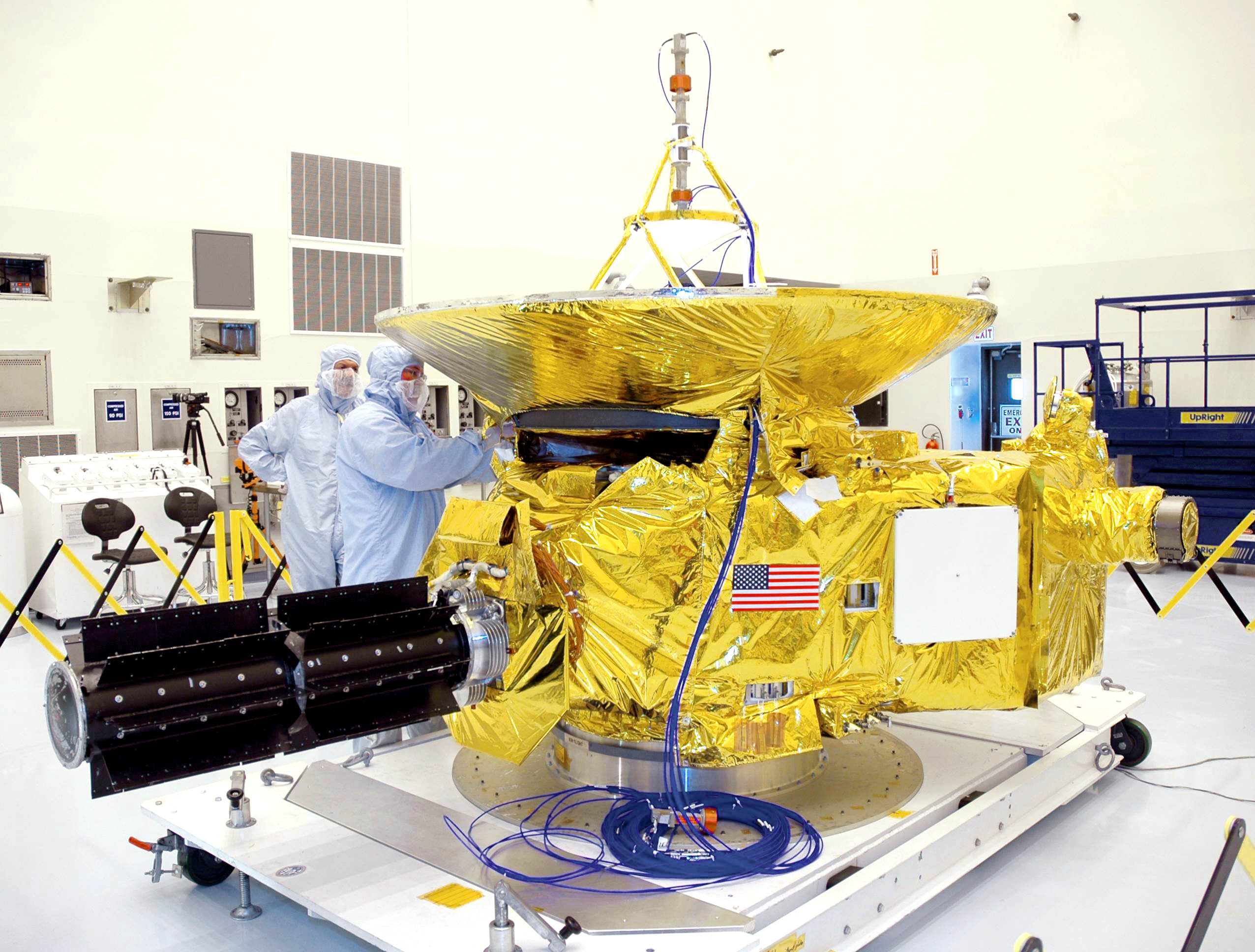 In the clean room at KSC’s Payload Hazardous Servicing Facility, technicians prepare the New Horizons spacecraft for a media event. Photographers and reporters will be able to photograph the New Horizons spacecraft and talk with project management and test team members from NASA and the Johns Hopkins University Applied Physics Laboratory. The RTG seen in this picture is not the real flying unit and is only a mockup. The real RTG was installed shortly before launch.